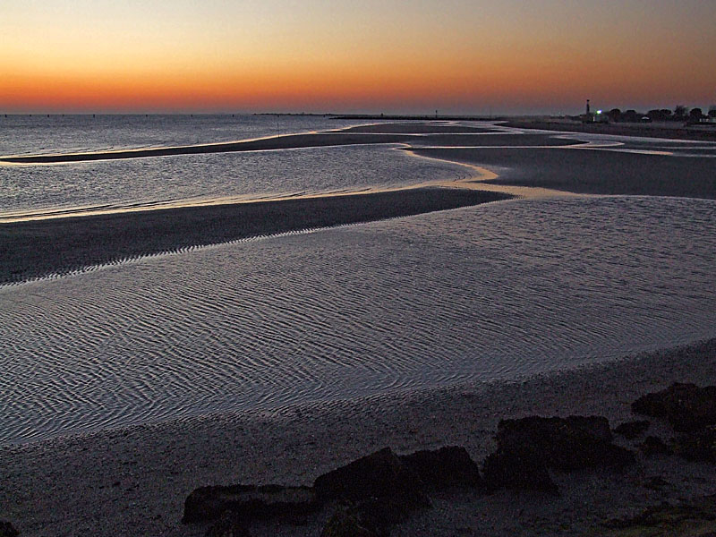 Walking along the Adriatic coast in Grado can be especially awarding in a beautiful evening.